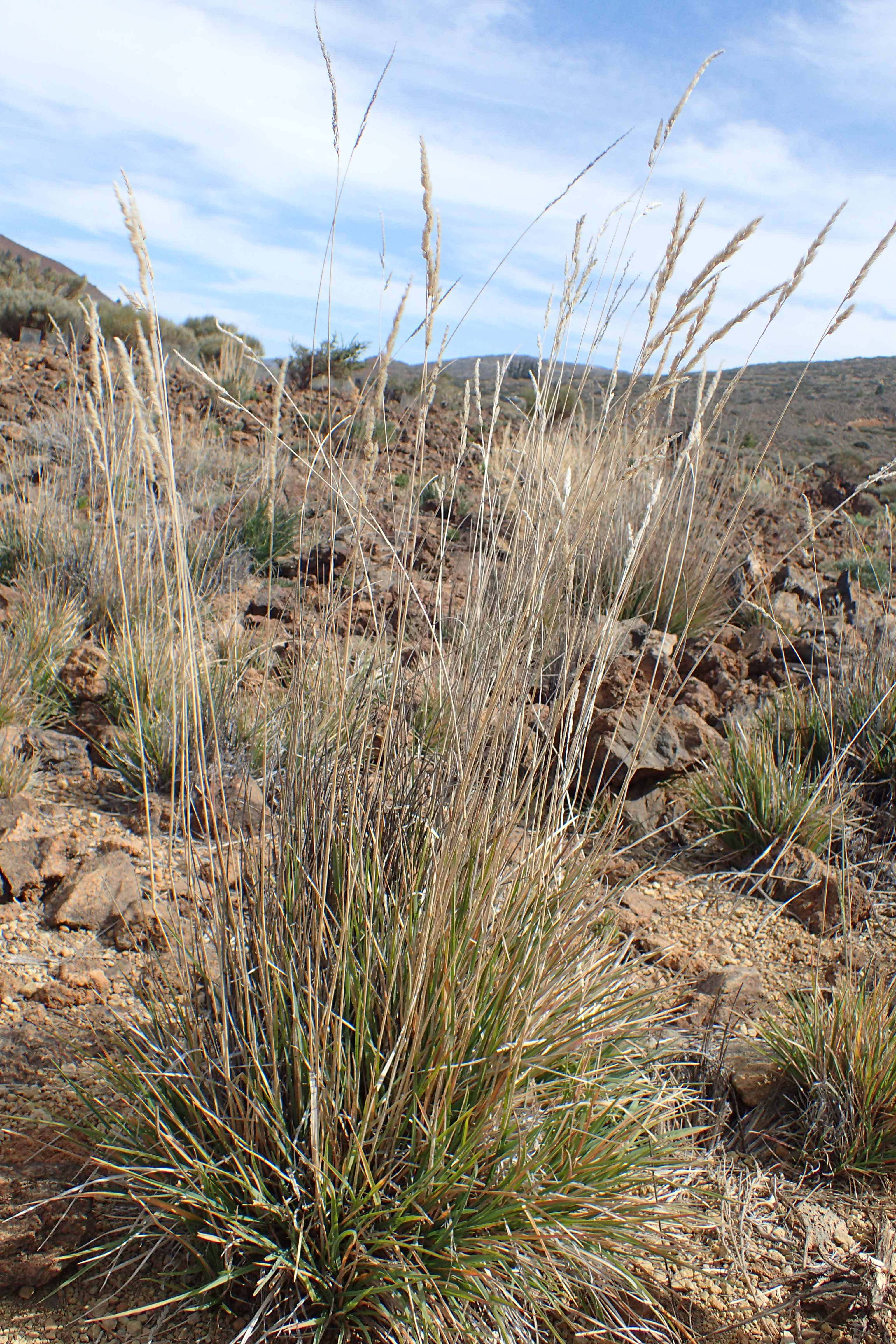 Dactylis metlesicsii in Los Canadas del Teide, Tenerife, Canary Is., Spain